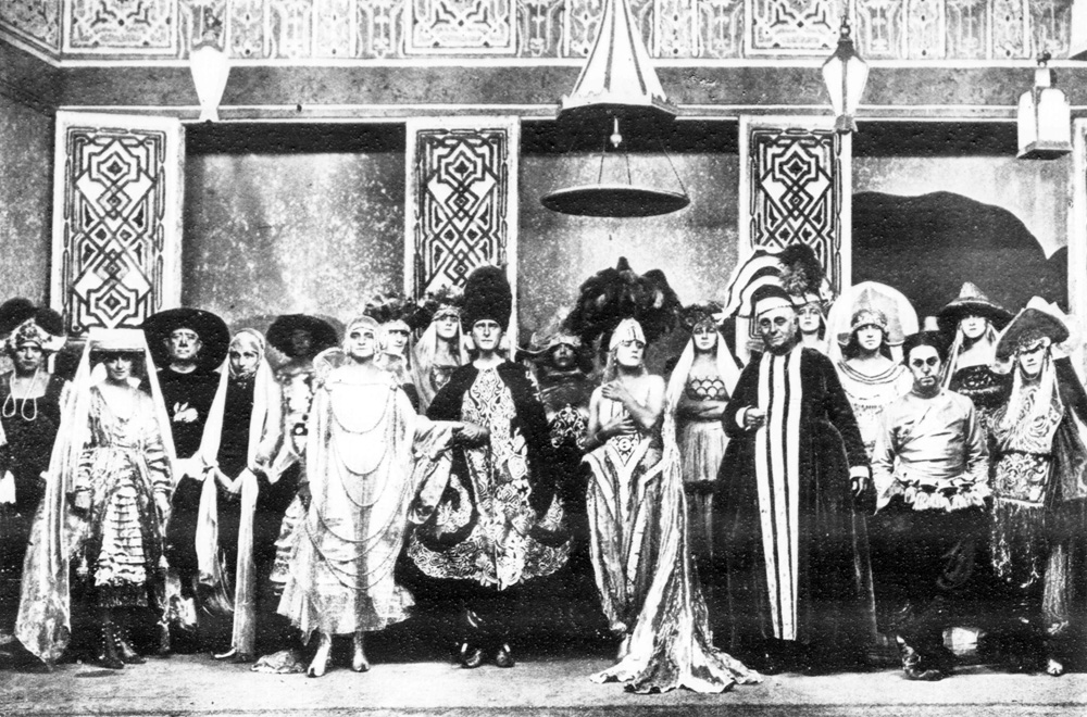 Scene from Charles Cuvillier's operetta Afgar, printed in and scanned from "Afgar – An Extravaganza in Two Acts", The Play Pictorial, August 1919, p. 55